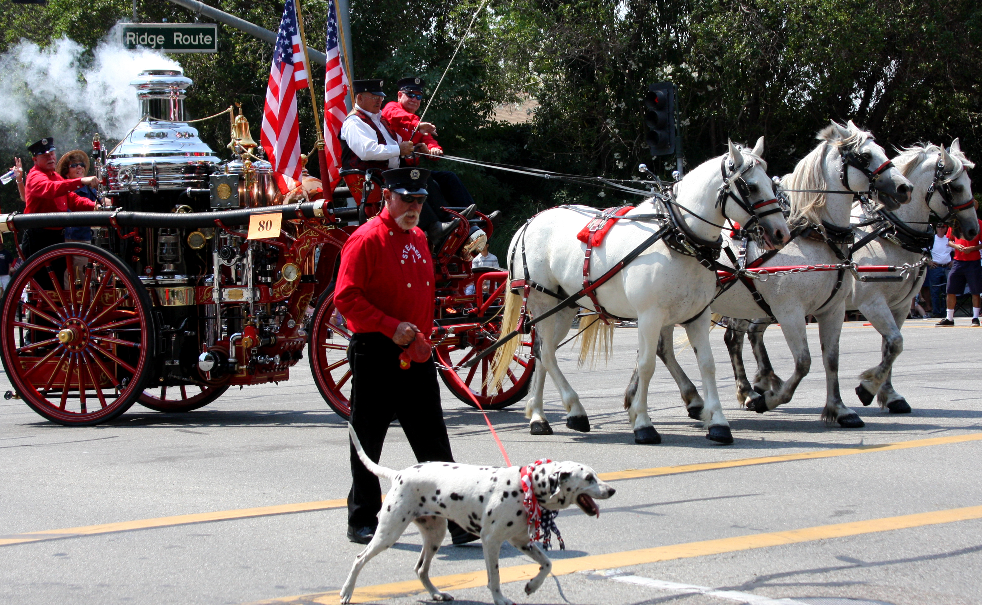 Lake Forest, CA July 4th ParadeOld Fire Engine